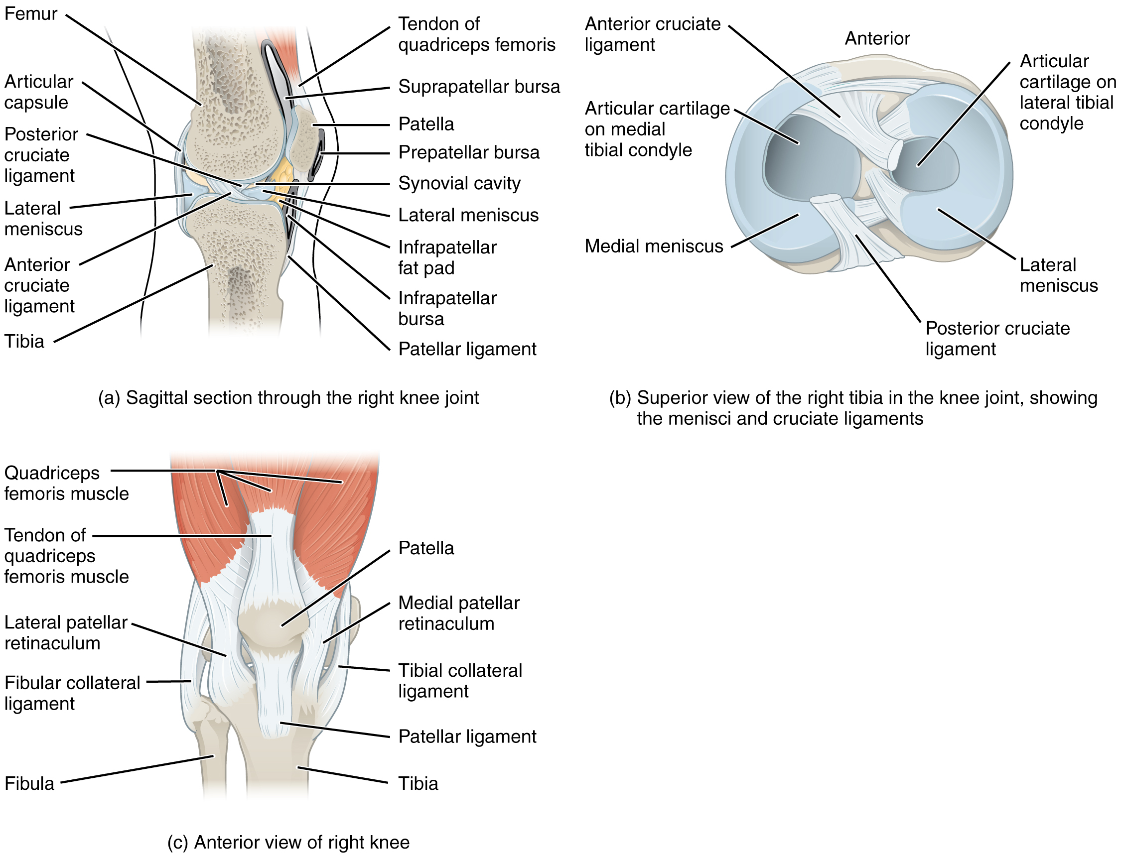 Illustration from Anatomy & Physiology, Connexions Web site. Jun 19, 2013.